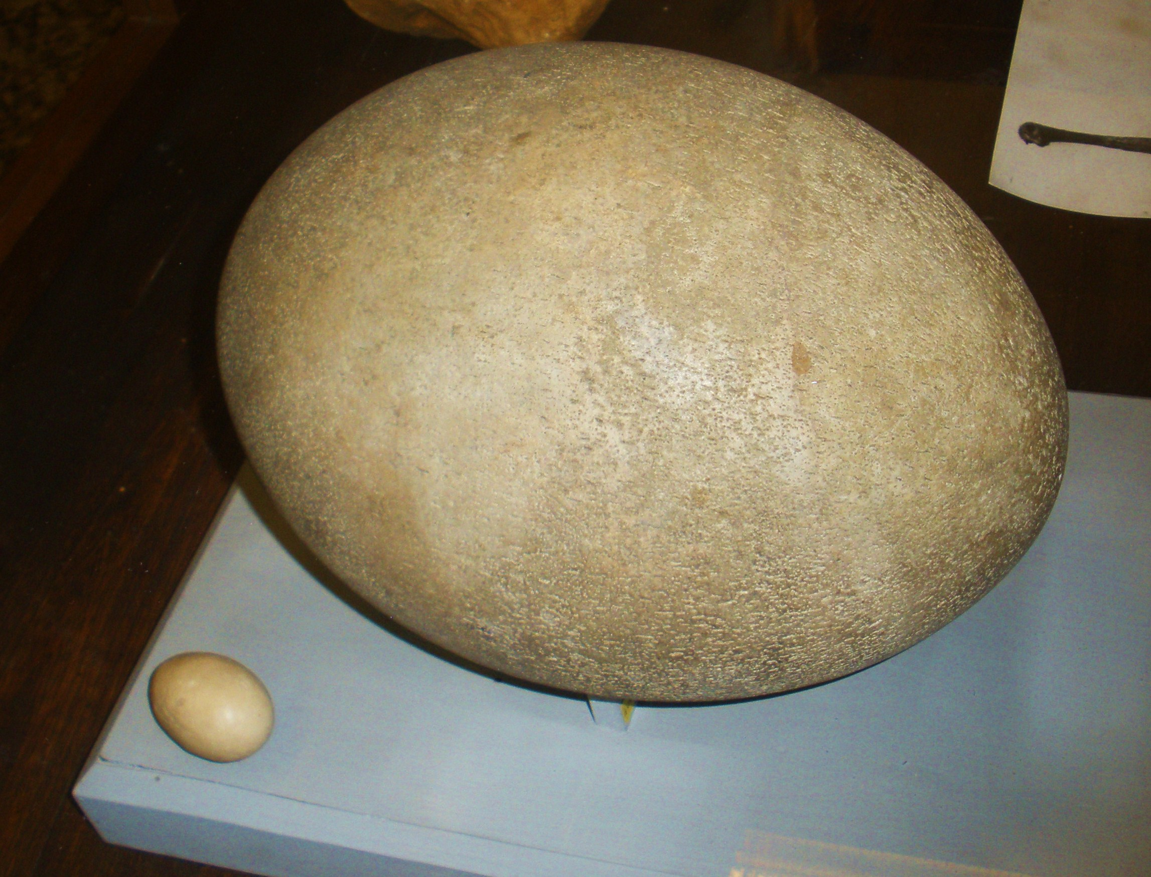 Fossil of Aepyornis, an extinct bird